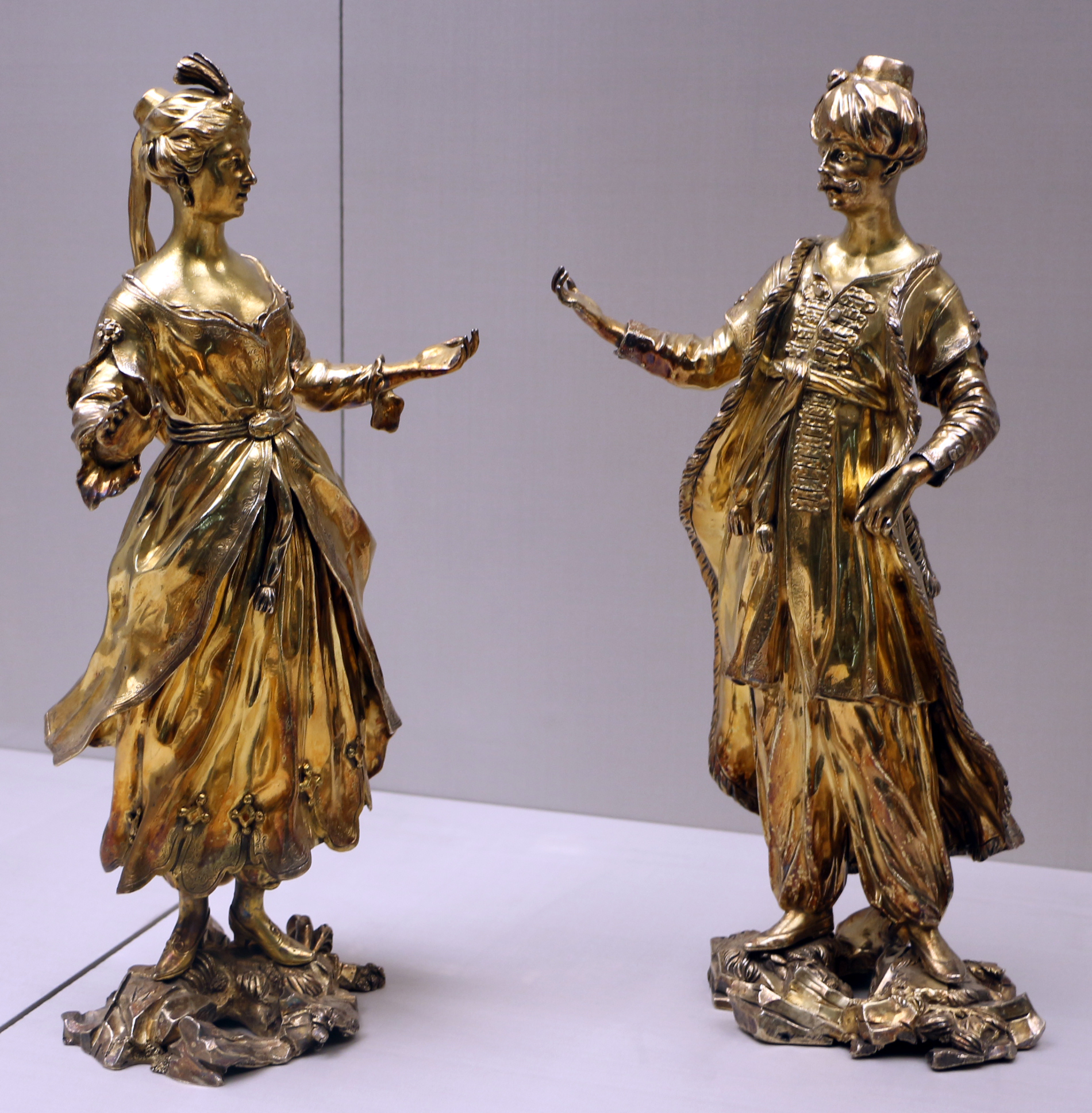 Silver objects in the Museu Nacional de Arte Antiga